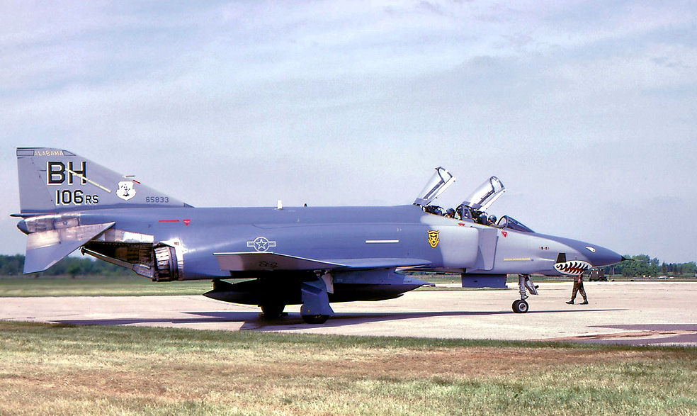 106th Reconnaissance Squadron McDonnell RF-4C-24-MC Phantom 65-0833. Note the "BH" tail code, as the squadron flew uncoded RF-4Cs from 1971 until 1992 when it came under Air Combat Command. Aircraft retired in 1993, now on static display at Jasper, AL VFW post.